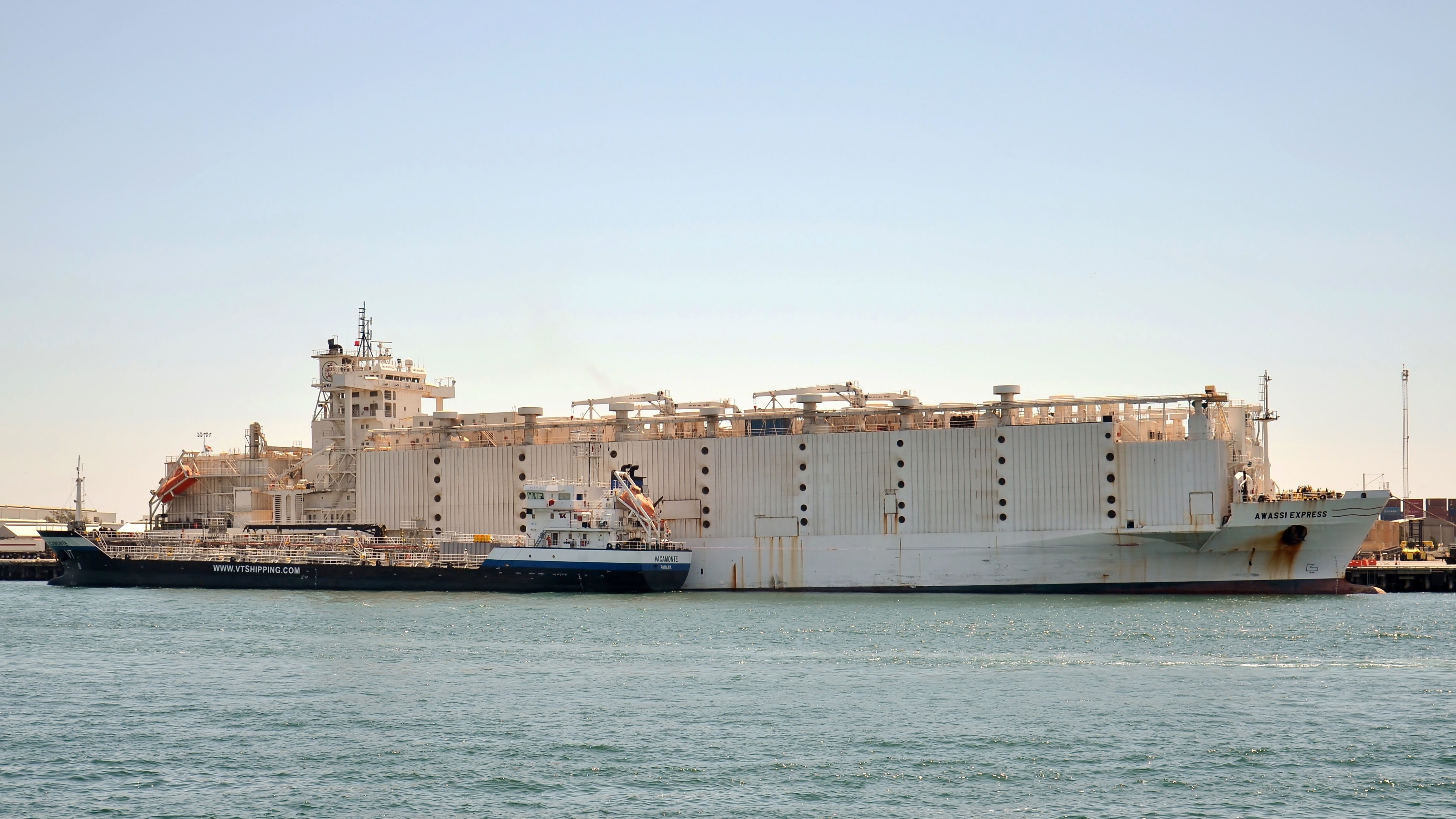 Livestock carrier Awassi Express berthed at North Quay, Fremantle Harbour, Western Australia. She is receiving bunkers from the Panamanian chemical and oil tanker Vacamonte.